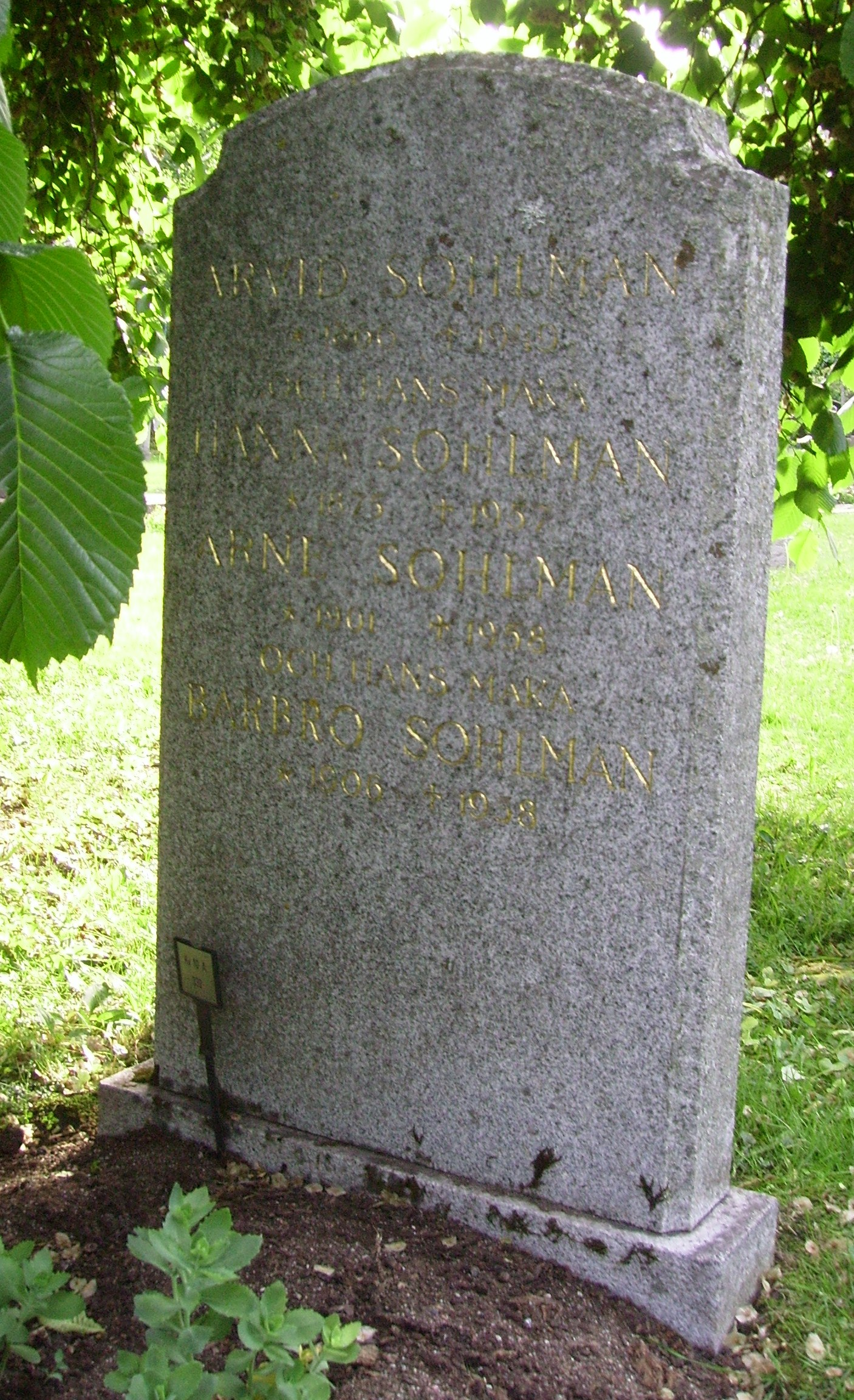 Picture of Arvid Sohlman's grave at Norra begravningsplatsen in Solna